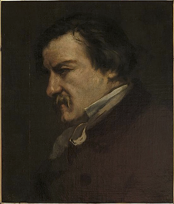 Portrait de Champfleury, oil on canvas, 46 x 38 cm, Musée d'Orsay (Paris).